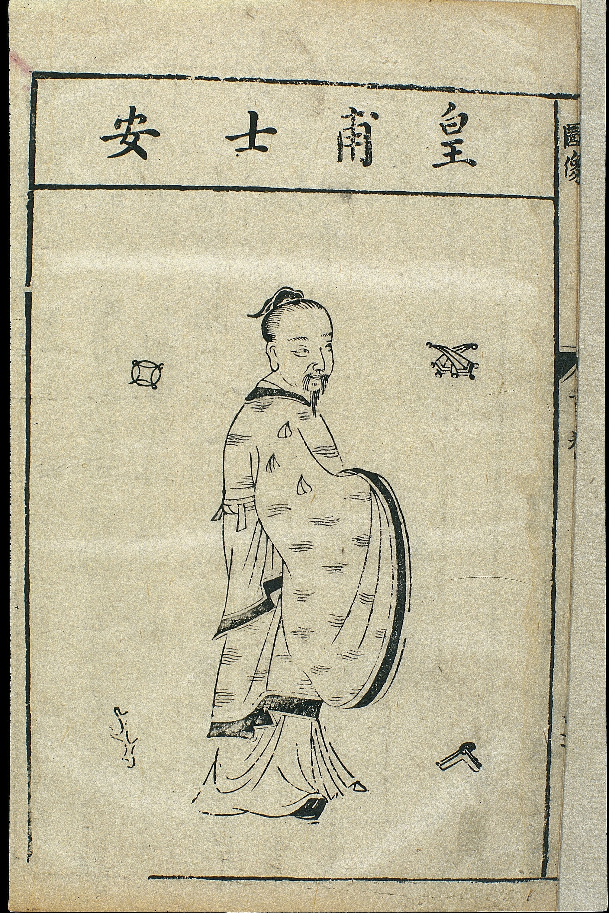 One of a series of woodcuts of illustrious physicians and legendary founders of Chinese medicine from an edition of Bencao mengquan (Introduction to the Pharmacopoeia), engraved in the Wanli reign period of the Ming dynasty (1573-1620) -- Volume preface, 'Lidai mingyi hua xingshi' (Portraits and names of famous doctors through history). The images are attributed to a Tang (618-907) creator, Gan Bozong. The account in 'Portraits and Names of Famous Doctors through History' states: Huangfu Mi, lived under the Western Jin dynasty (265-316). His style-name was Shi'an, and he also called himself Master Xuanyan. He had a vast knowledge of ancient and contemporary scholarship, and possessed a library of 10,000 volumes. He was well-versed in prescribing and pulse diagnosis. He is the author of Zhenjiu jia-yi jing (The AB Canon of Acupuncture).Woodcut By: Gan Bozong (Tang period, 618-907)